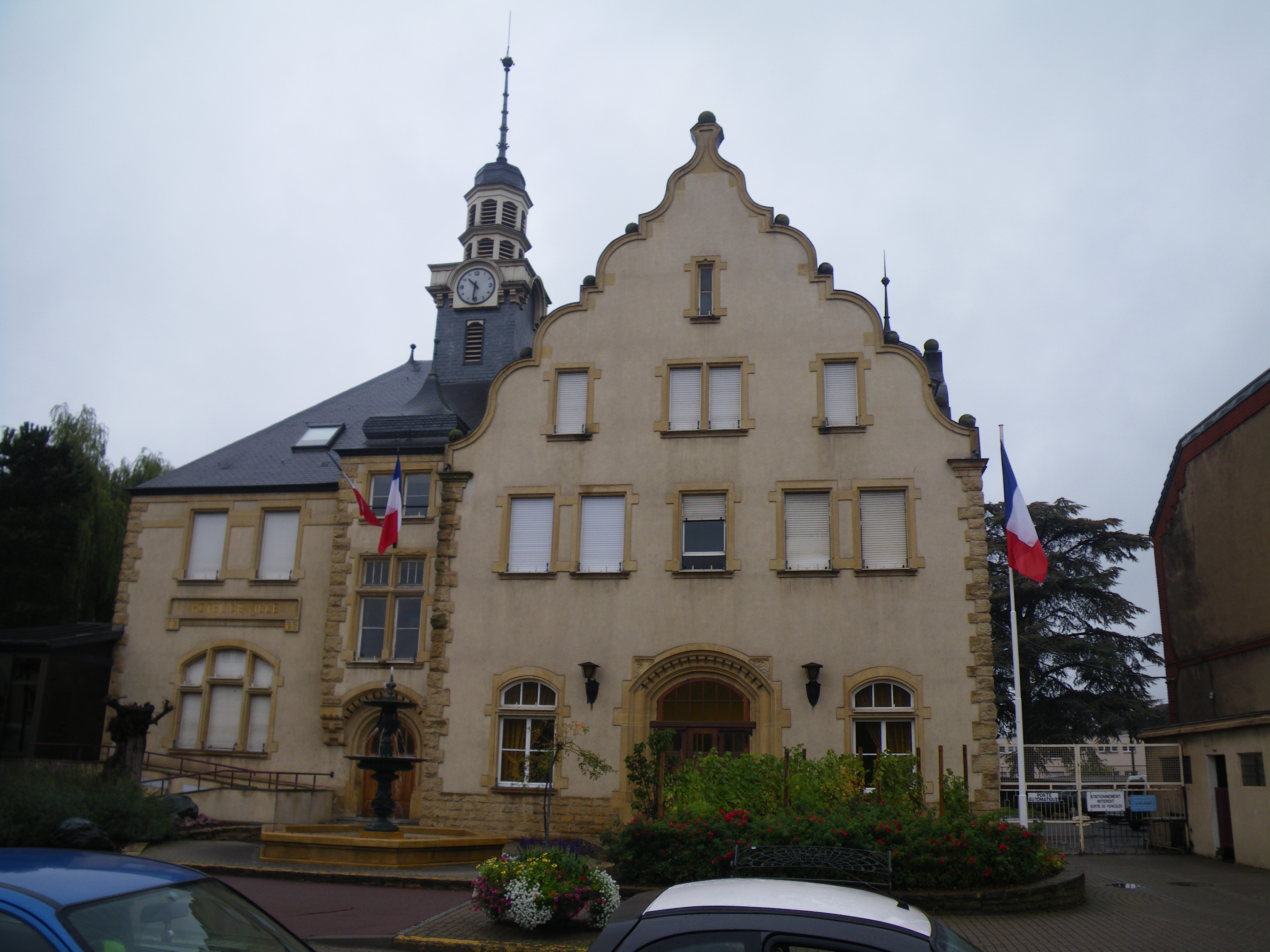 The town hall of Amnéville, Moselle, France.